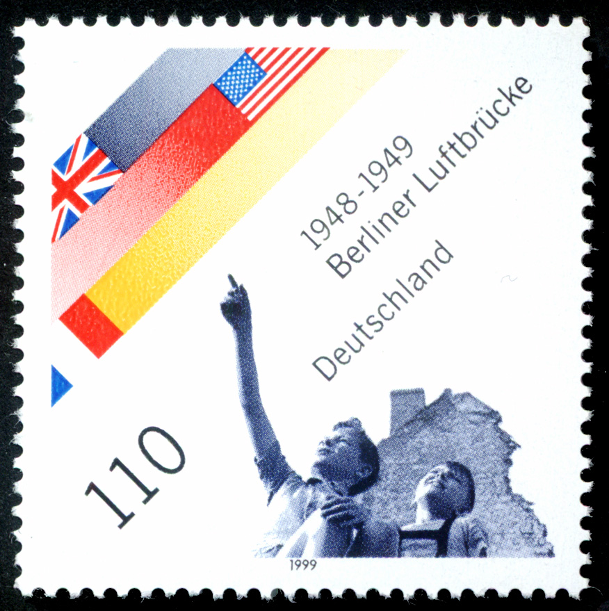 Stamp from Deutsche Post AG from 1999, 50th anniversary of end of Berlin Blockade